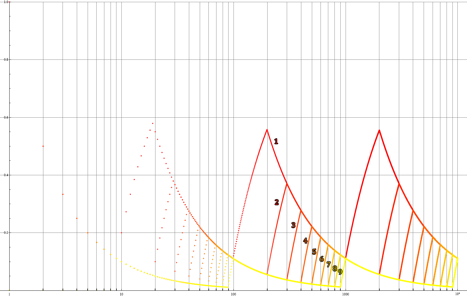 A graph of the densities of the sets of numbers starting with 1 up to 9, showing how the average density of numbers starting with 1 is higher than the rest. In fact, the average densities correspond exactly to the proportions predicted by Benford's law. Selfmade in Mathematica.